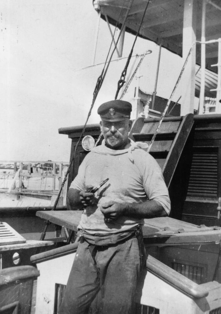 Tom Welsby Tom Weslby on board the vessel, Bearen on the South Passage. (Description supplied with photograph.).